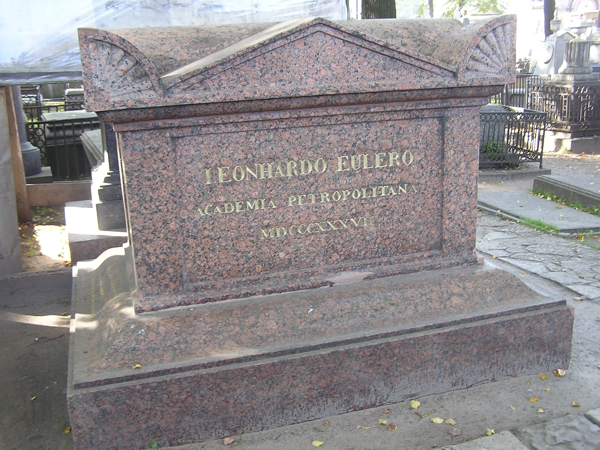 Lazarev Cemetery